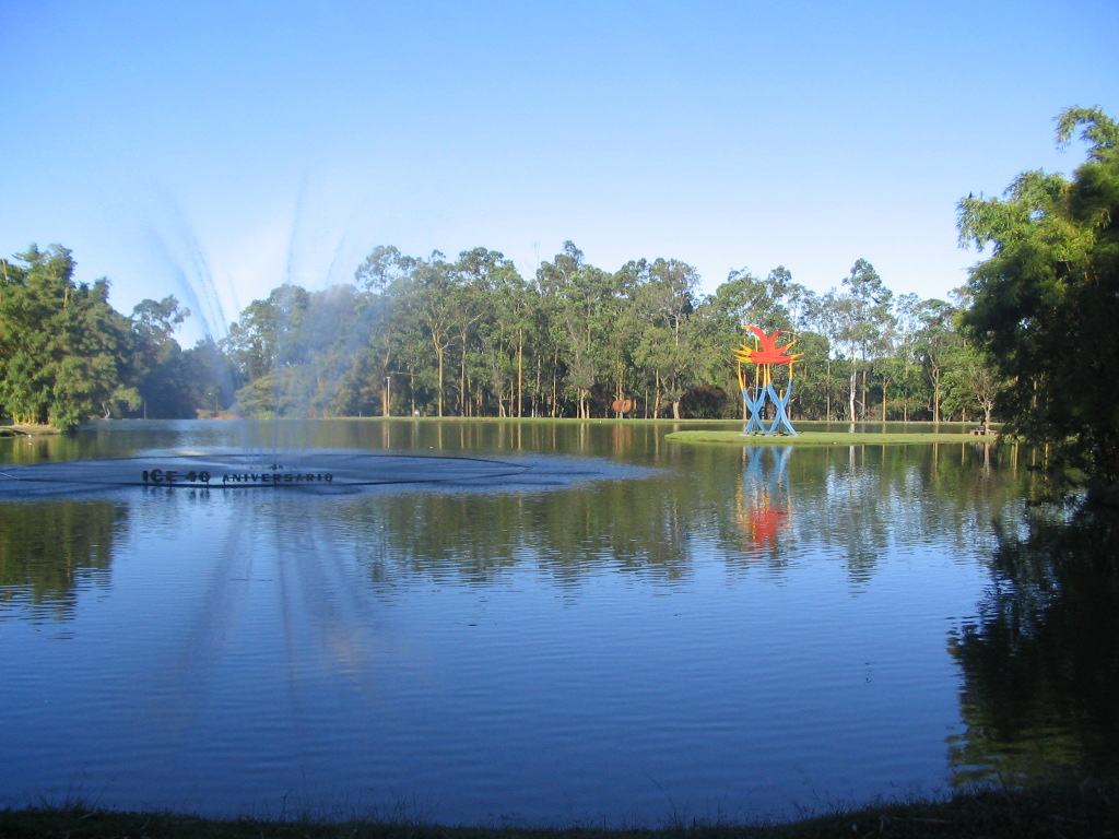 La Sabana Metropolitan Park — large urban park in San José, Costa Rica. Fountain and ornamental pond.